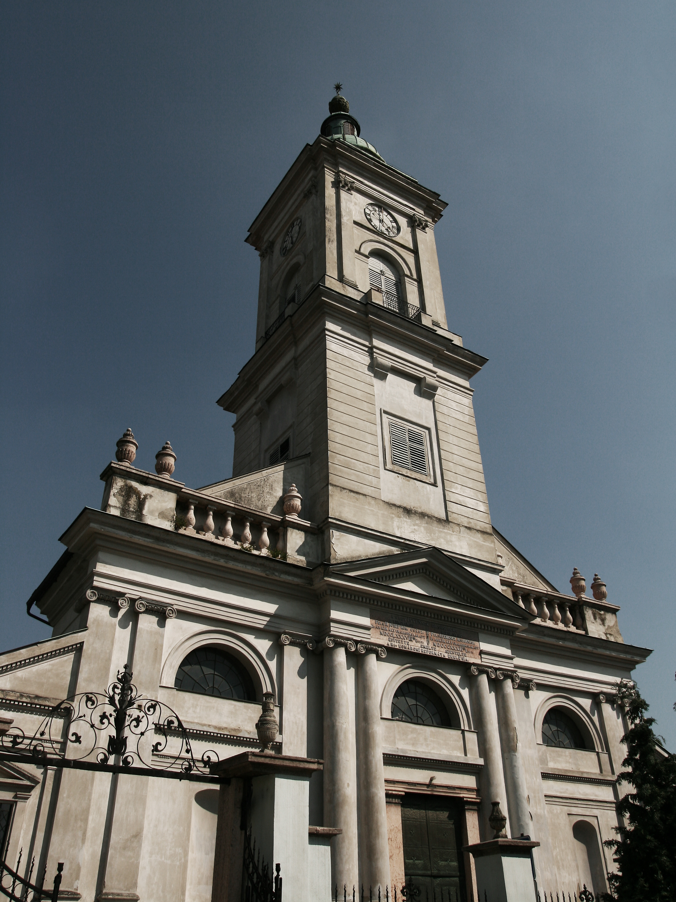 Reformed church, Komárno, Slovakia